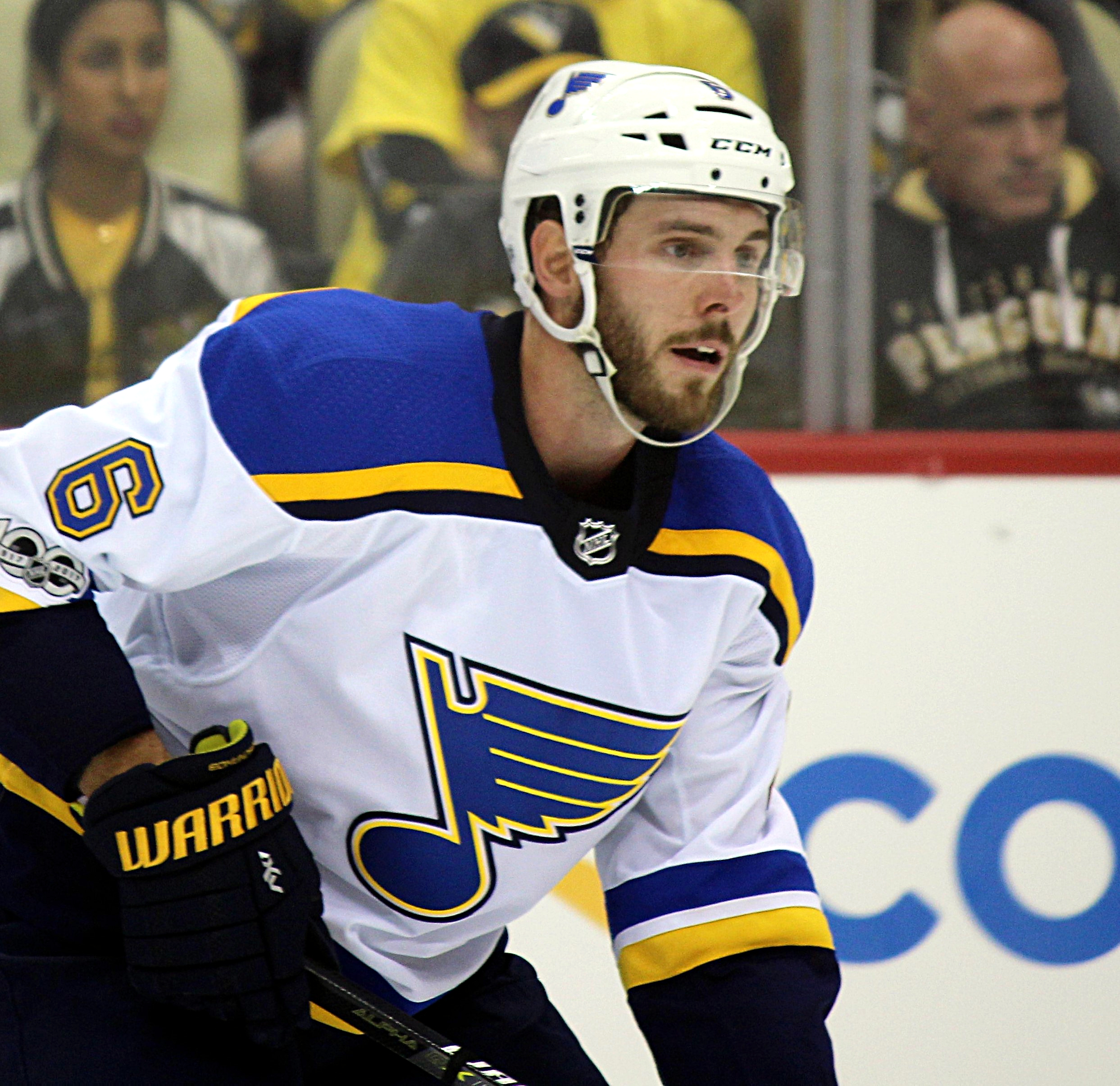 St. Louis Blues defenseman Joel Edmundson during a game against the Pittsburgh Penguins, October 4, 2017, at PPG Paints Arena in Pittsburgh, PA.